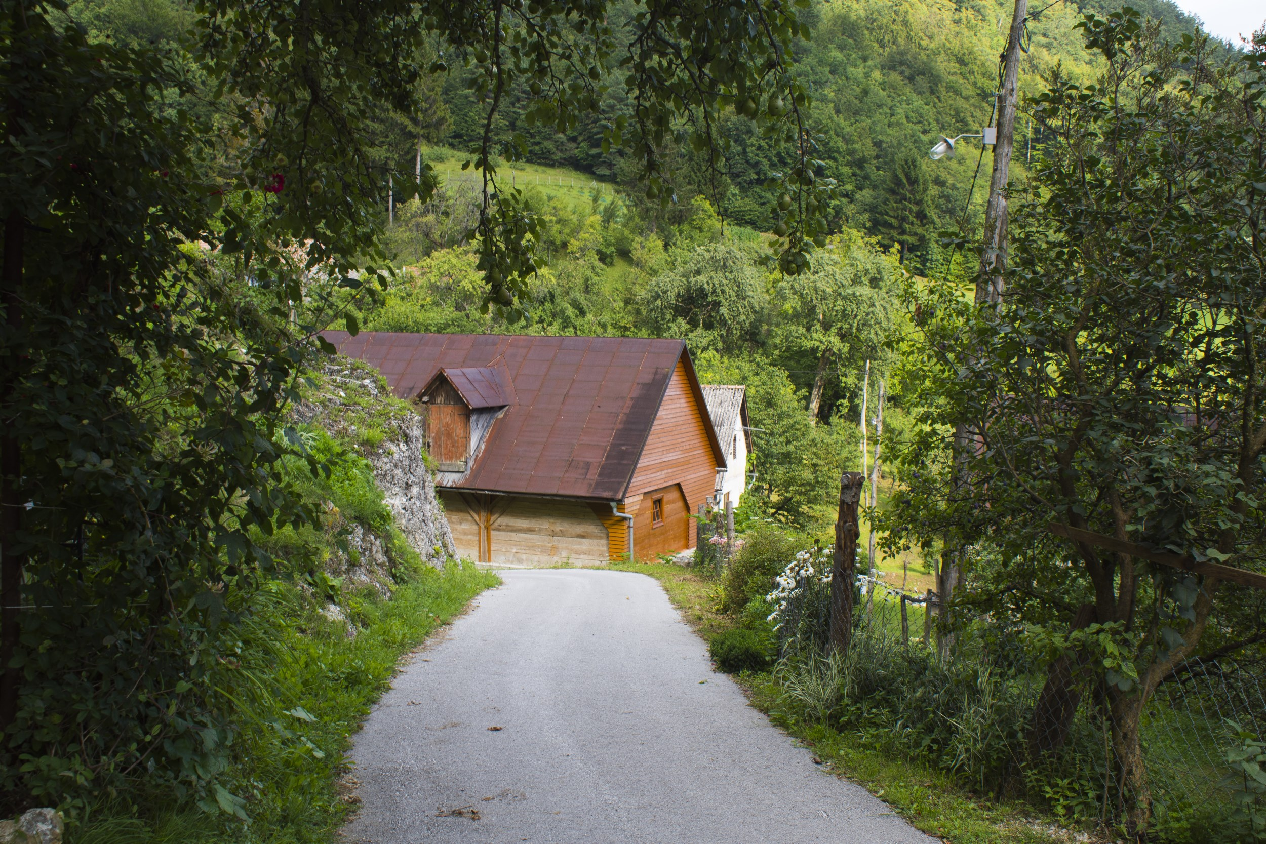 Kekić Draga village